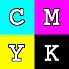 Color swatches showing CMYK. Created by Wapcaplet in the GIMP.